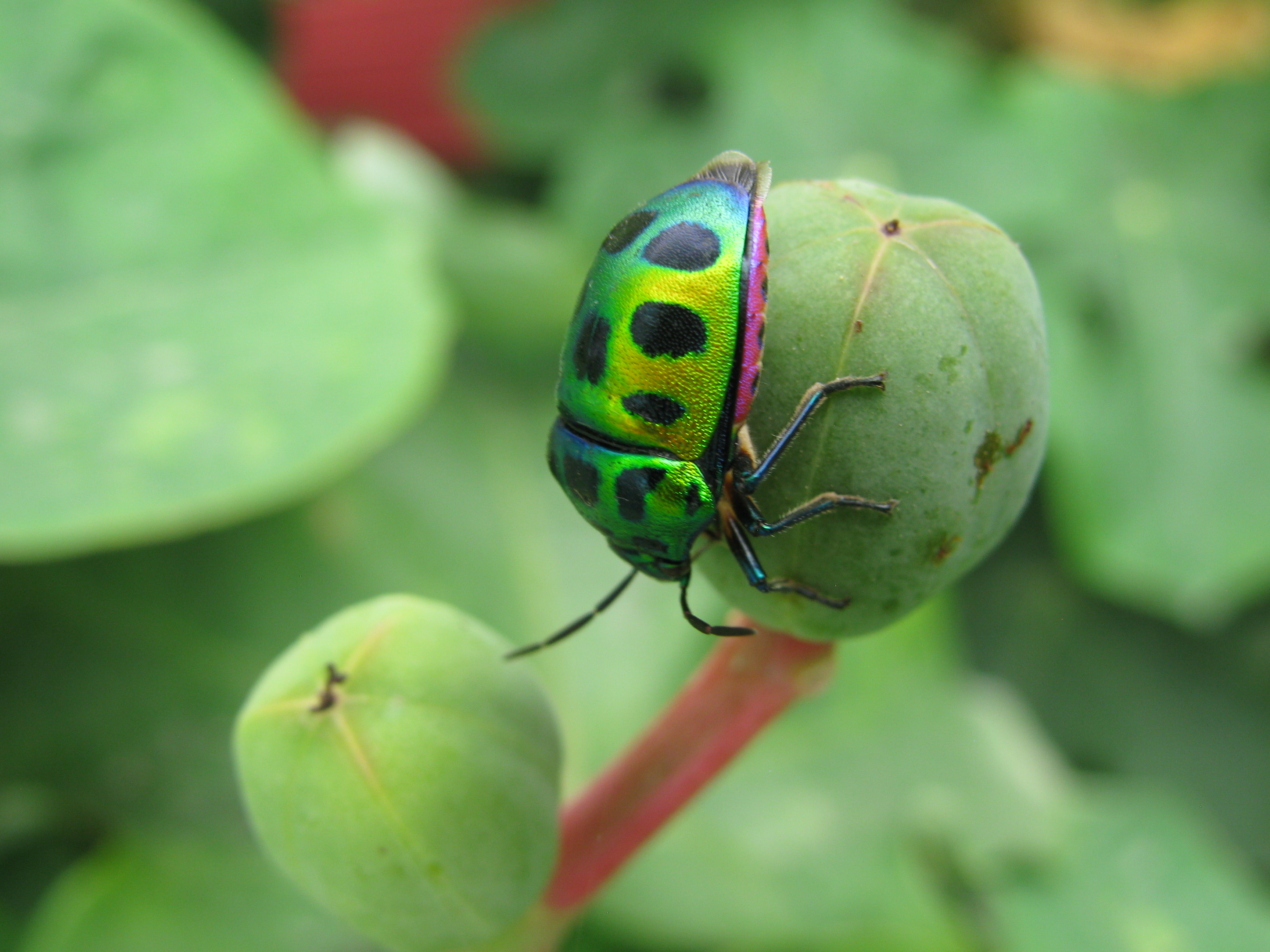 This image was taken in the project Wiki Loves Butterfly, central park (Kolkata) Butterfly garden.Jewel Bugs Chrysocoris stolli